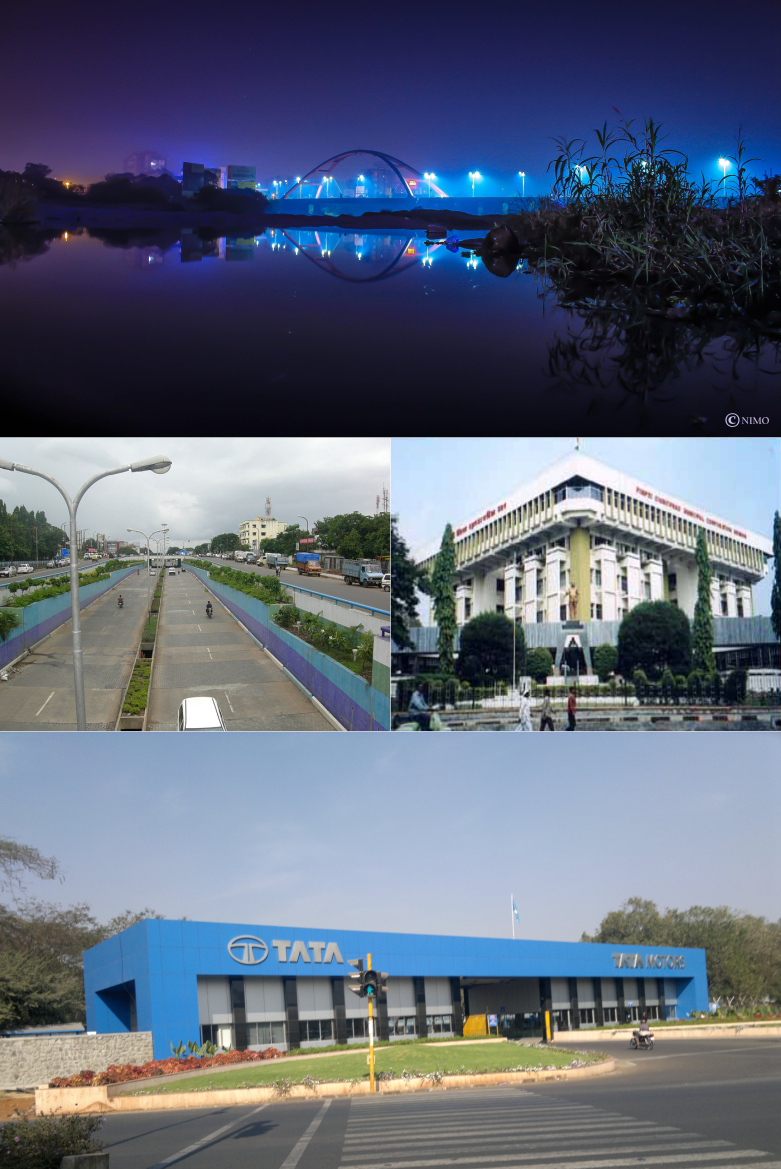 Ravet Bridge (Top), Grade Separator on the Old Mumbai-Pune Highway near Pimpri (Center-Left), PCMC building (Center-right), Tata Motors Plant in Bhosari (Bottom)